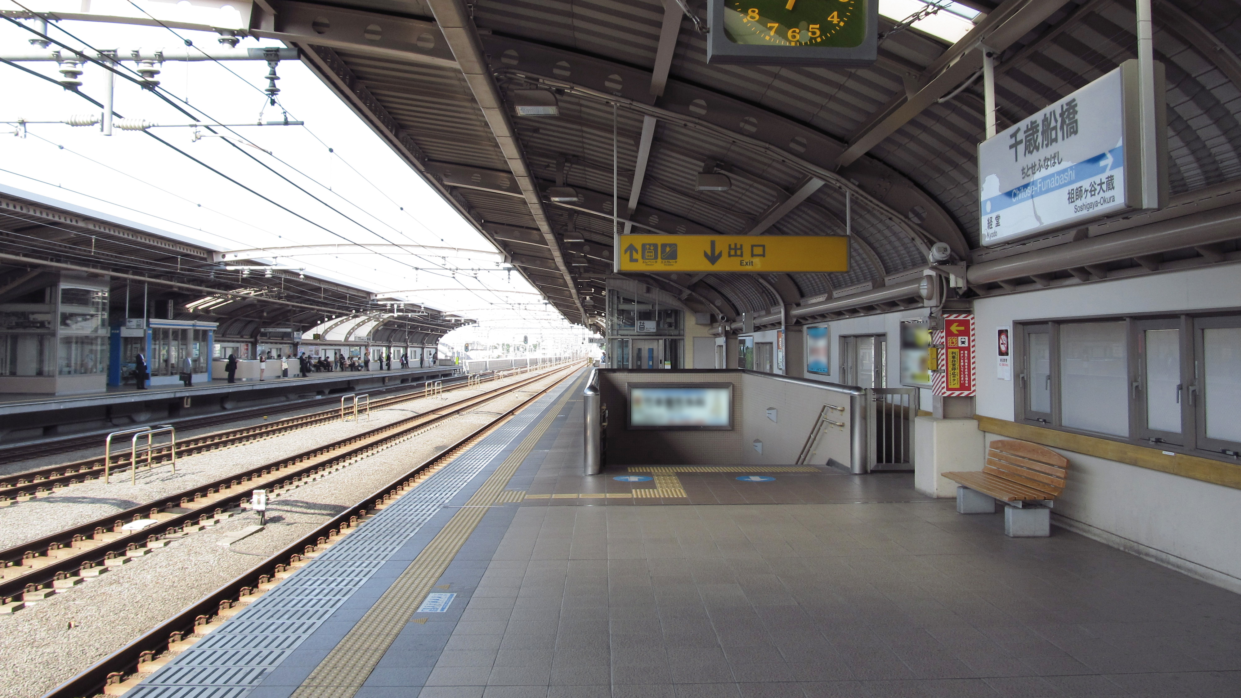 The platforms at Chitose-Funabashi Station on the Odakyū Electric Railway Odawara Line in Setagaya city, Tokyo, Japan